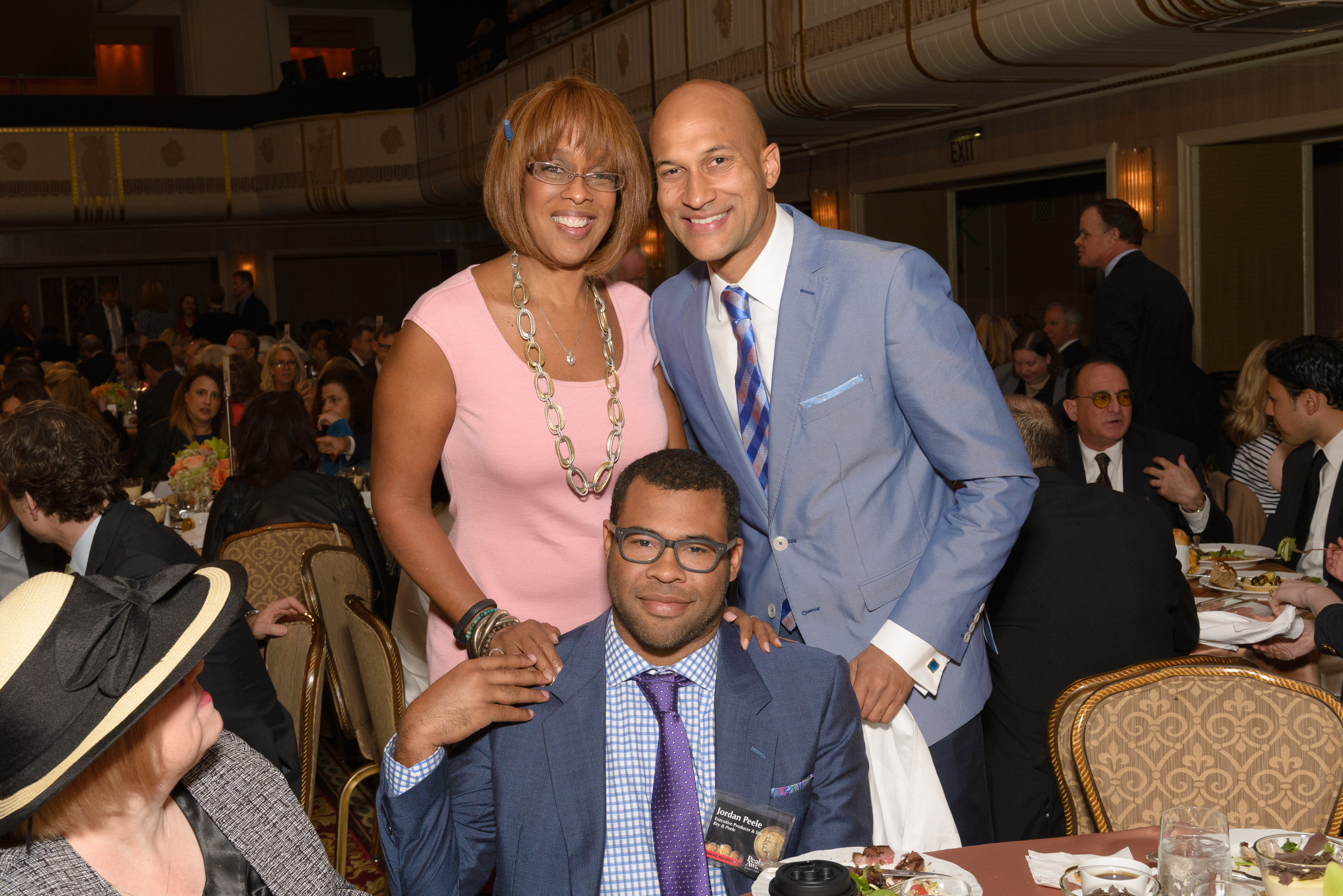 Gayle King with Jordan Peele and Keegan-Michael Key at the 73rd Annual Peabody Awards